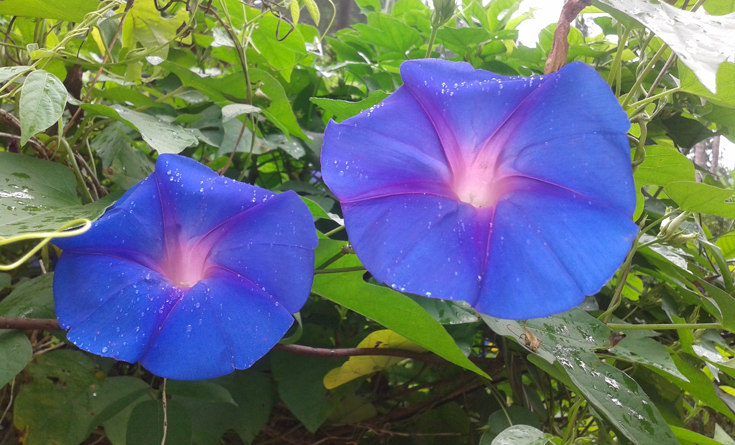 by Irvin calicut . flower creeper